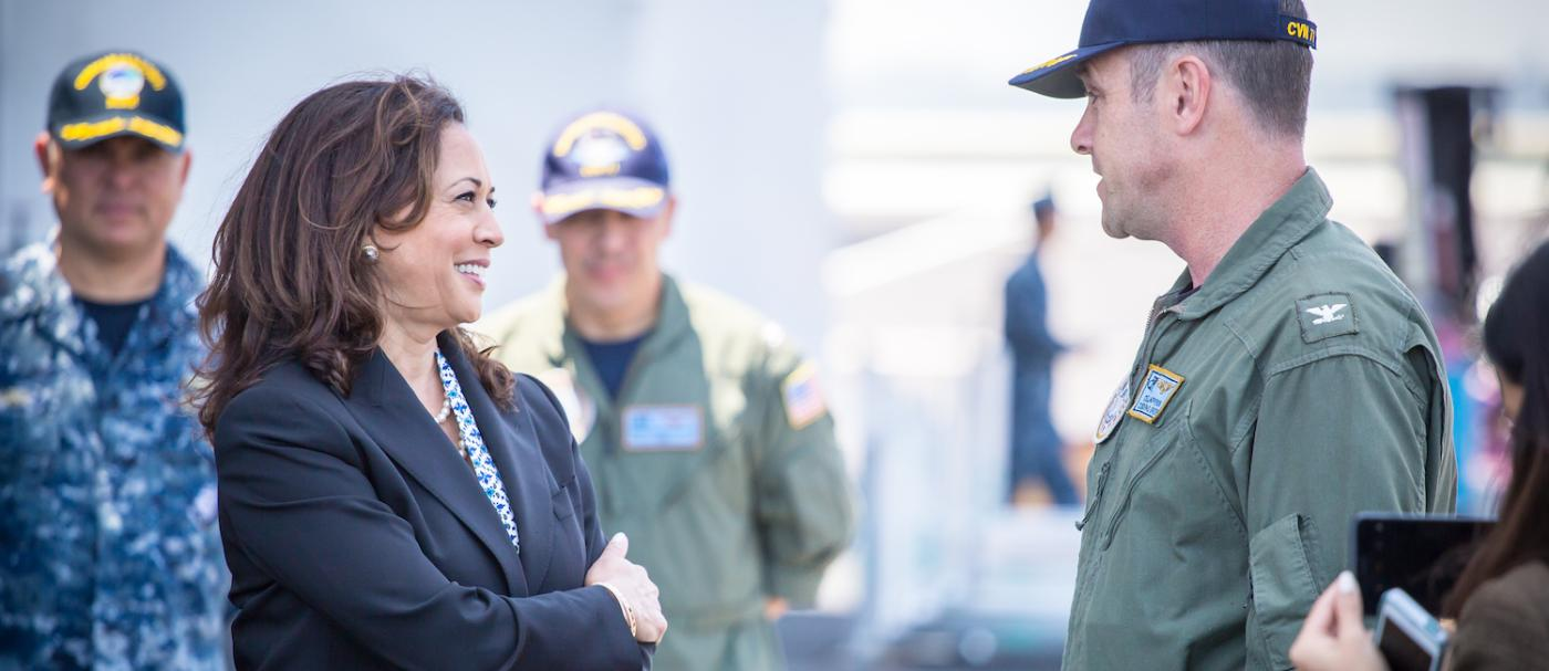 Kamala Harris